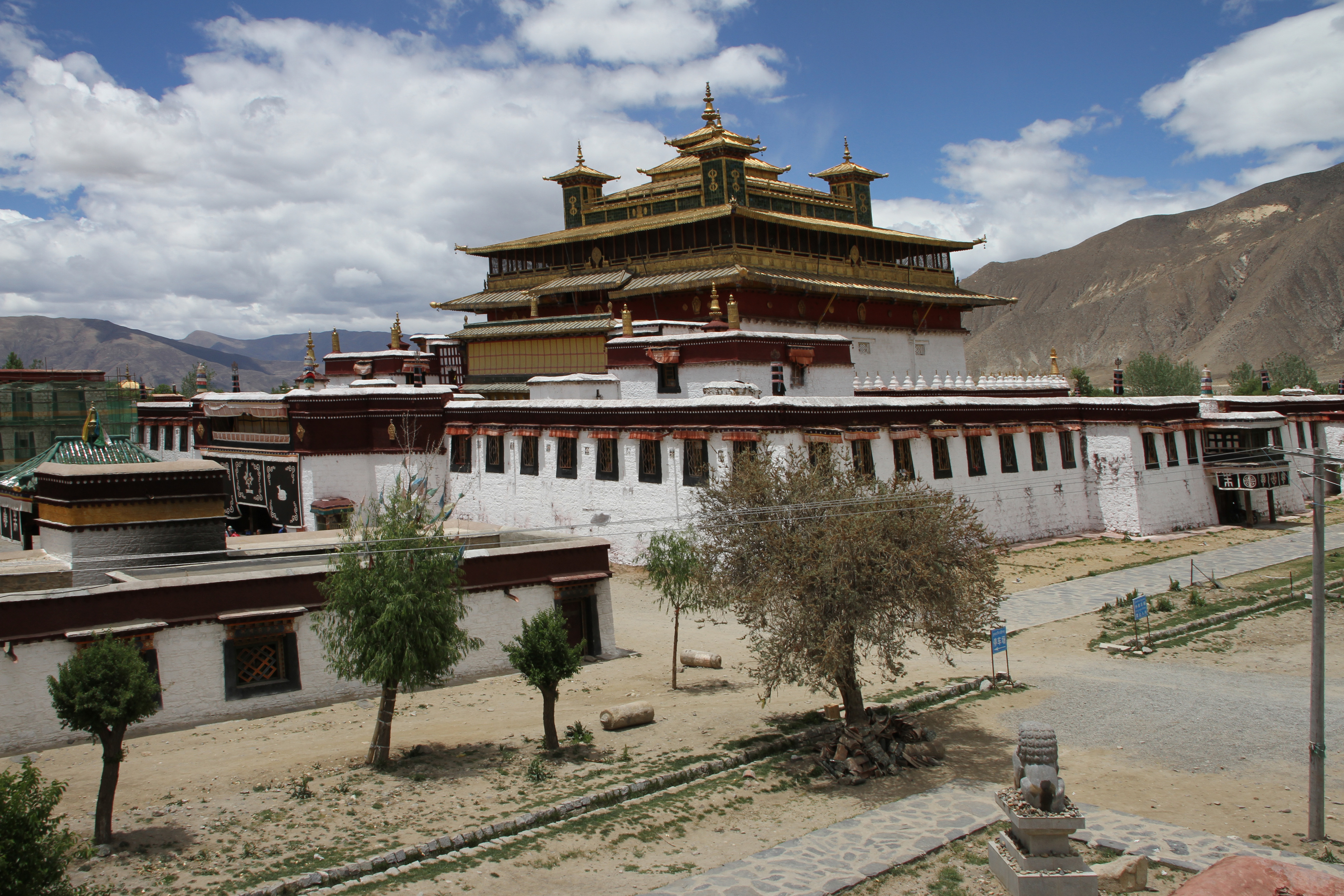 Samye Monastery in Tibet